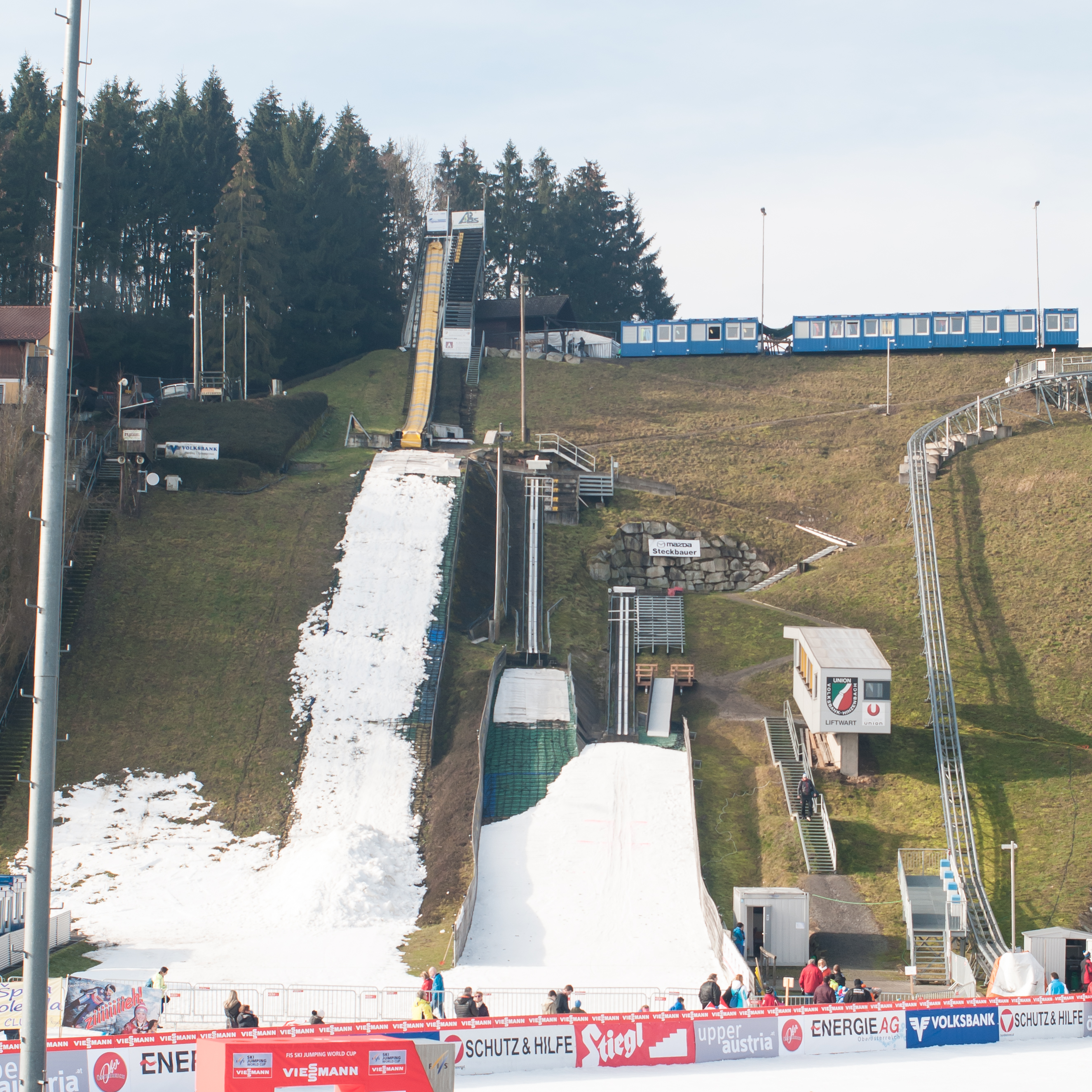 FIS Ski Jumping World Cup Ladies Hinzenbach 2016-02-07